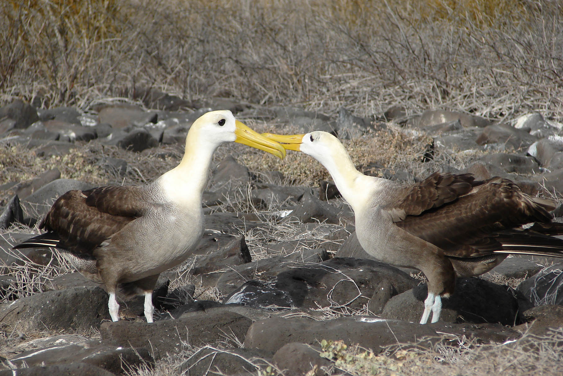 This my own photograph of a pair of waved albatross during a courtship dance